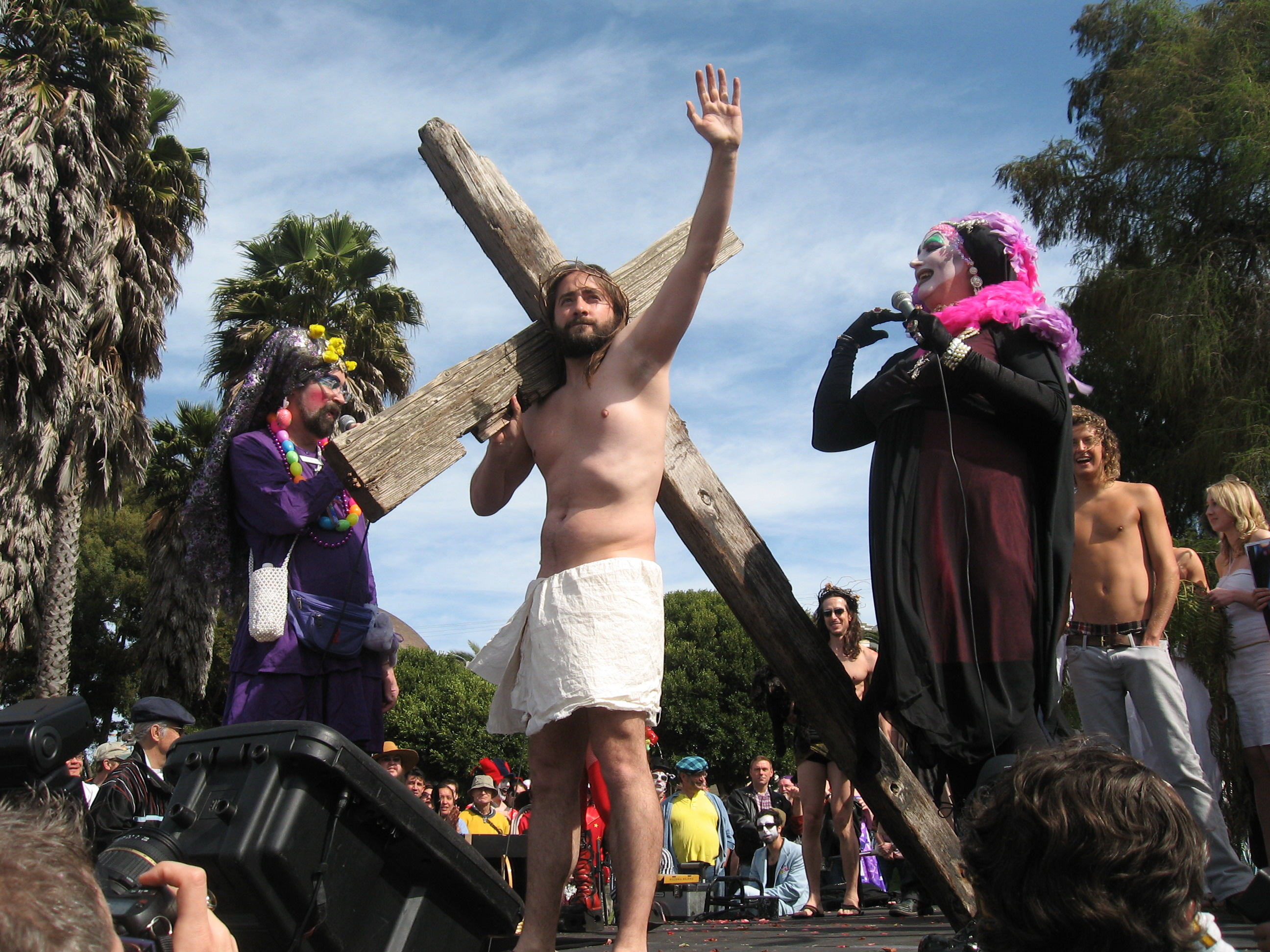 Night of the Living Easter: The Sisters of Perpetual Indulgence's 28th Anniversary Celebration. It Came from Dolores Park! The Sisters of Perpetual Indulgence celebrate their 28th year of raising money, eyebrows (and a smidge of Hell), all for our community. Including the popular Hunky Jesus competition!